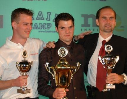 Boris Konrad (left), Clemens Mayer (middle) and Gunther Karsten (right) at the German Memory Championships